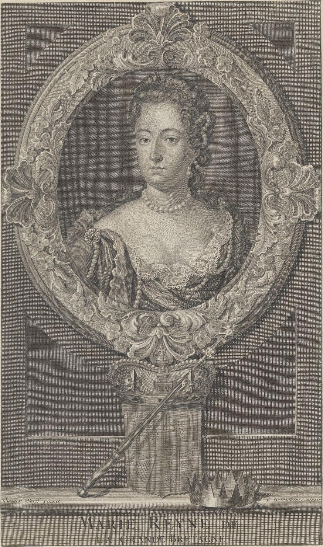 Portrait of Mary II of England.